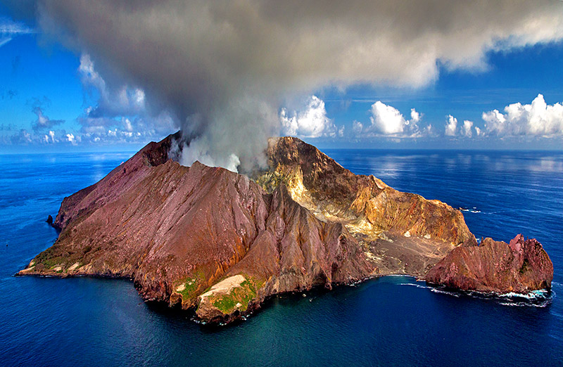 White Island - aerial photo